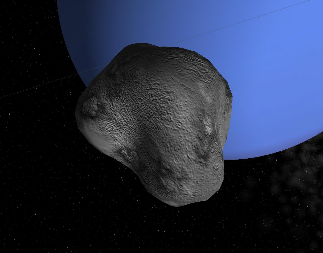 A simulated view of Galatea orbiting Neptune. attribution: --JiFish(Talk/Contrib)